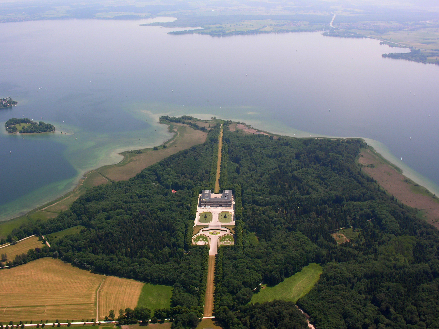 Germany, Bavaria, Herrenchiemsee castle